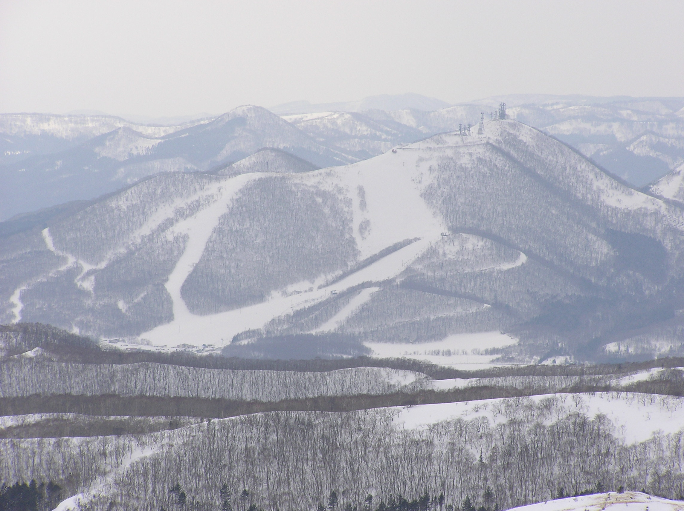 Birao Ski aria, Teshikaga , Hokkaido, Japan.